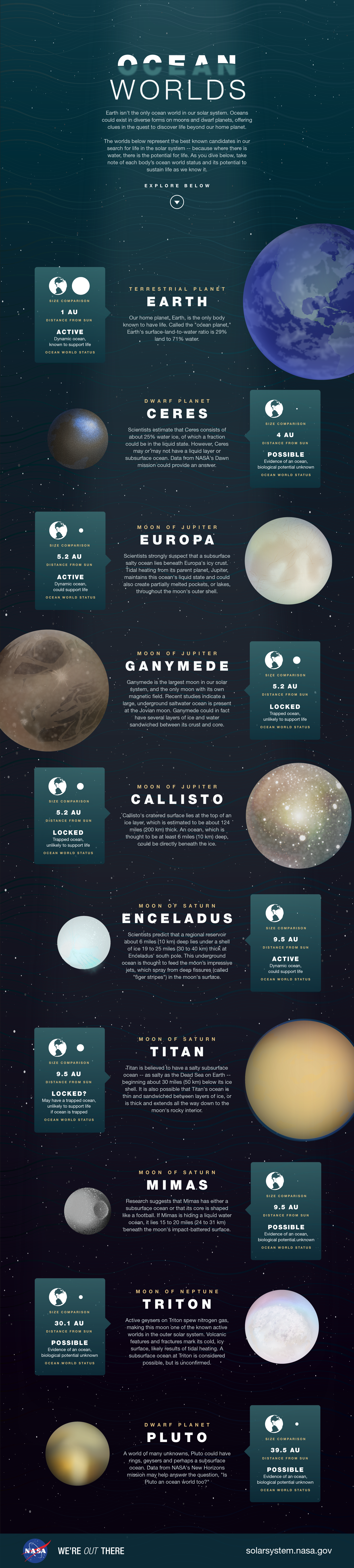 NASA - Infographic - April 7, 2015 Ocean Worlds Earth isn't the only ocean world in our solar system. Oceans could exist in diverse forms on moons and dwarf planets, offering clues in the quest to discover life beyond our home planet. This illustration depicts the best known candidates in our search for life in the solar system.